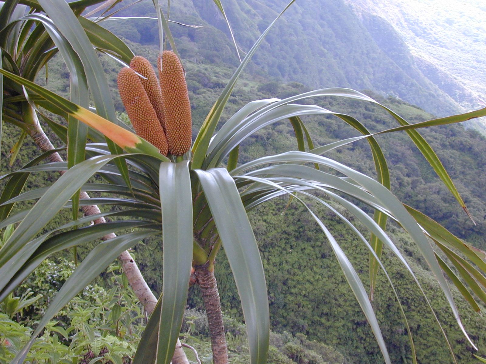 Foliage and fruit of Freycinetia arborea ('Ie'ie) native to Hawaii. At Waihee Ridge Trail, Maui, Hawaii.